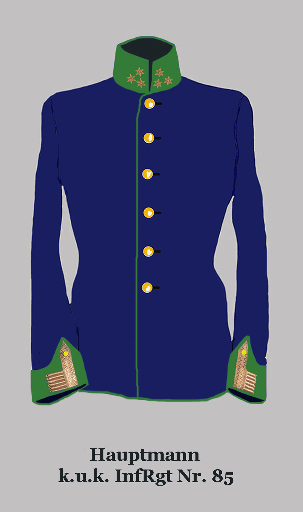 Captain of the k.u.k. hungarian 85th Infantry Regiment (Collar applegreen, buttons yellow)